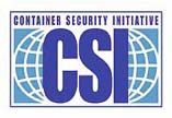 Container Security Initiative Emblem (U.S. Customs and Border Protection)